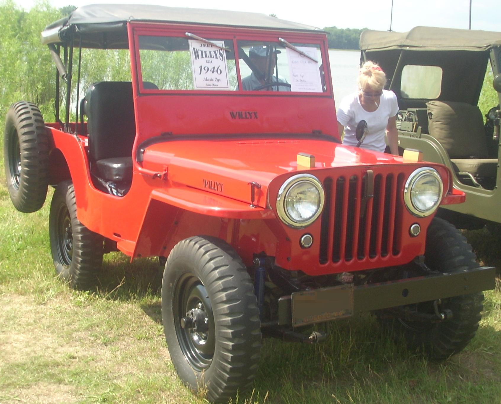 1946 Jeep CJ photographed in Laval, Quebec, Canada at Auto classique Laval 2010.